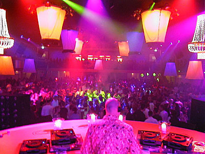 Mixing Pioneer CDJ1000